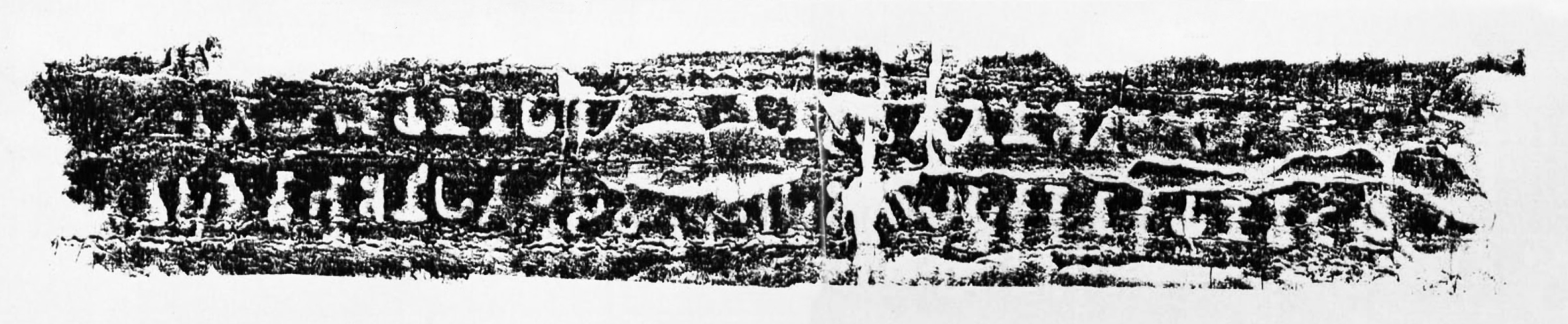 Fragment C of Hathibada Brahmi Inscription at Nagari